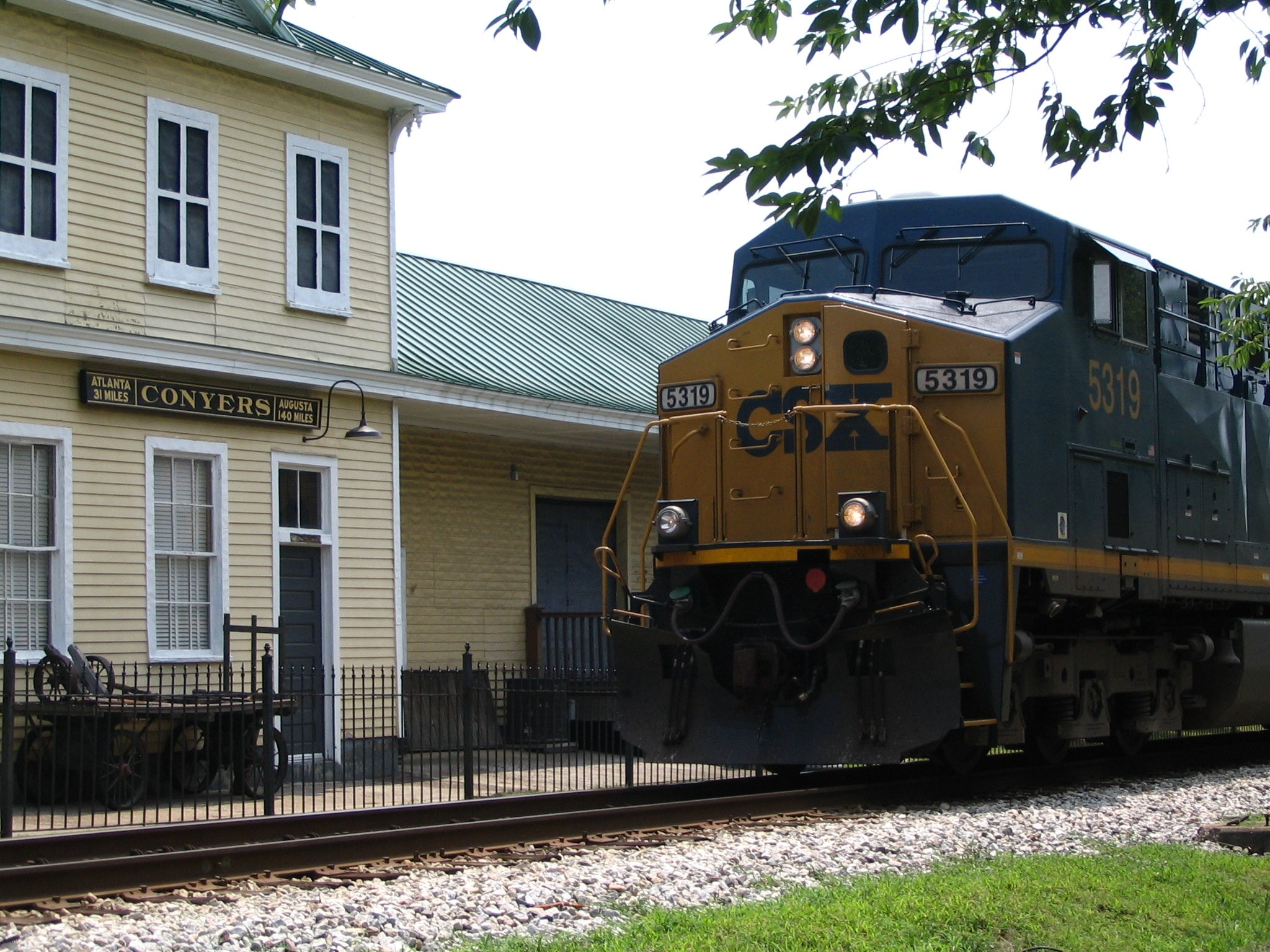 The Conyers Depot, now the Conyers Welcome Center, still sees trains running in front of it. Photo taken by Steve Karg